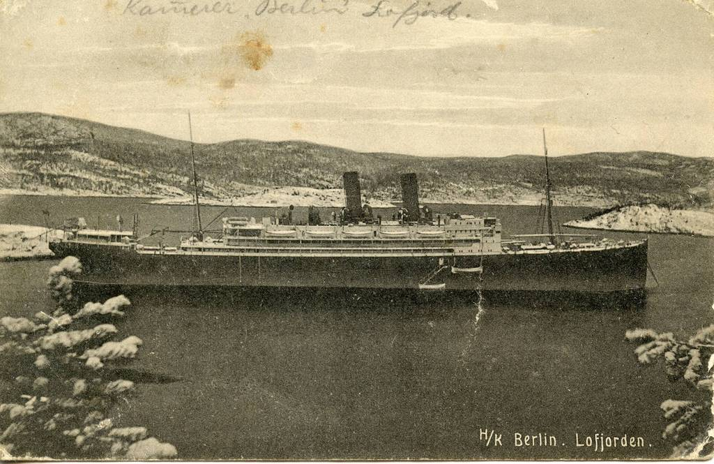 Field postcard of Rudolf Kämmerer, born on 15.10.1889 in Greußen, Krs Sondershausen, German Navy on the auxiliary cruiser "Berlin", interned at Trondheim in Norway. The Norwegian postcard shows the demilitarized German auxiliary cruiser "Berlin" in Lofjord. It carries the postmark "Imperial. German Naval Ship Post No.. '88 '.